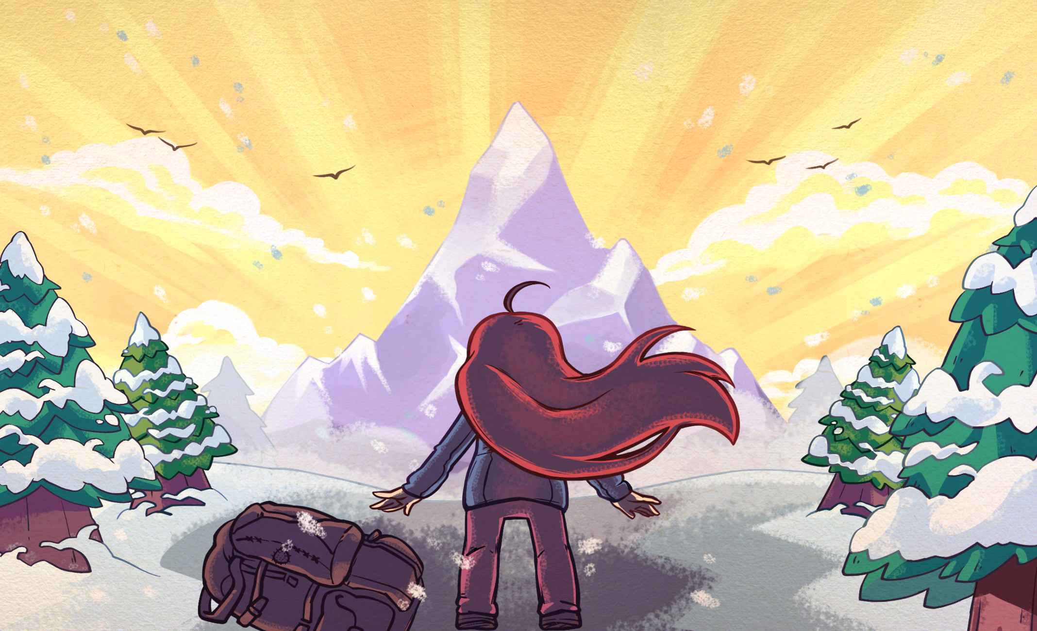 Art from the 2018 video game Celeste